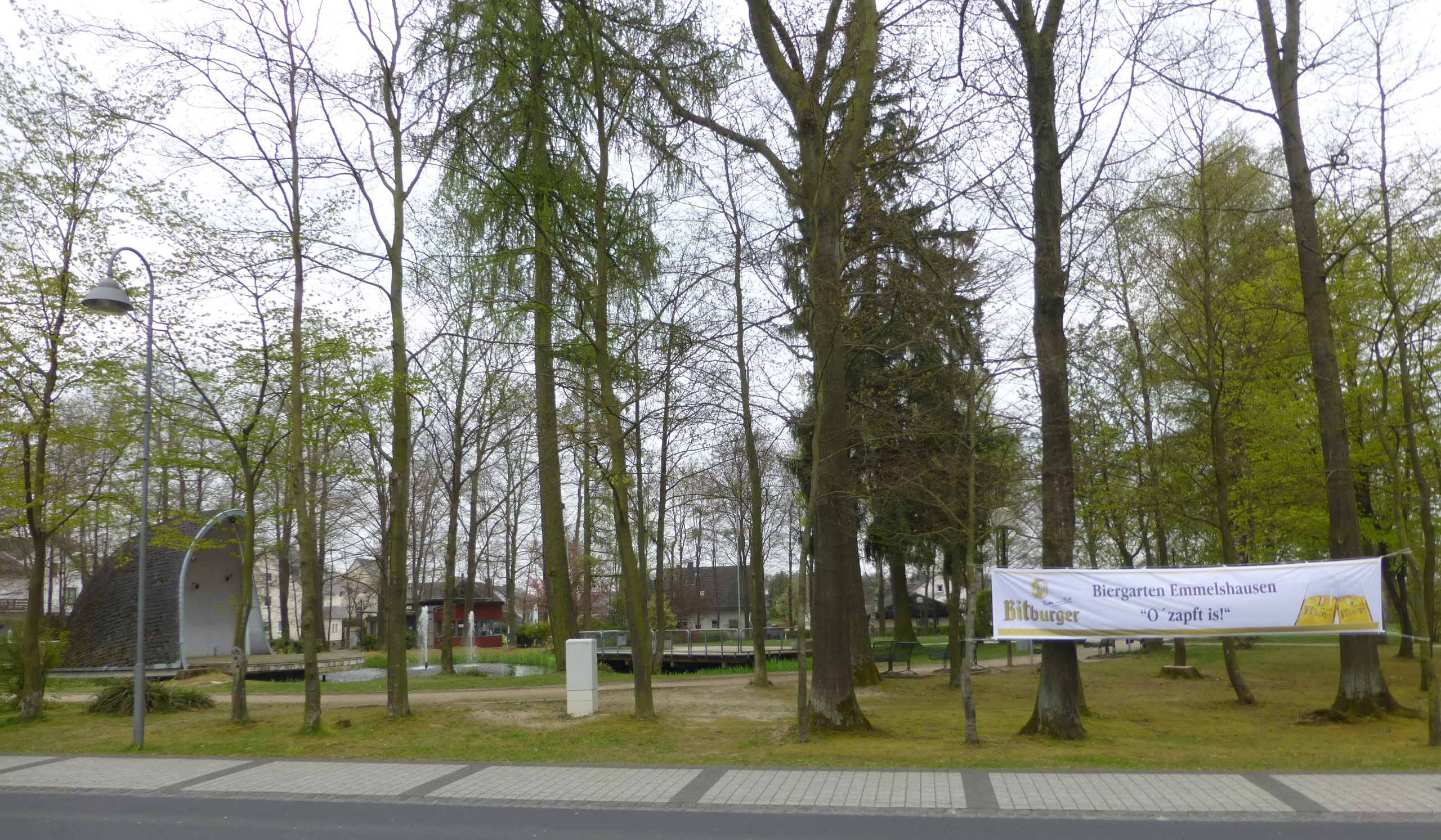 Parc in Emmelshausen, Rhine-Hunsrück District, Rhineland-Palatinate.